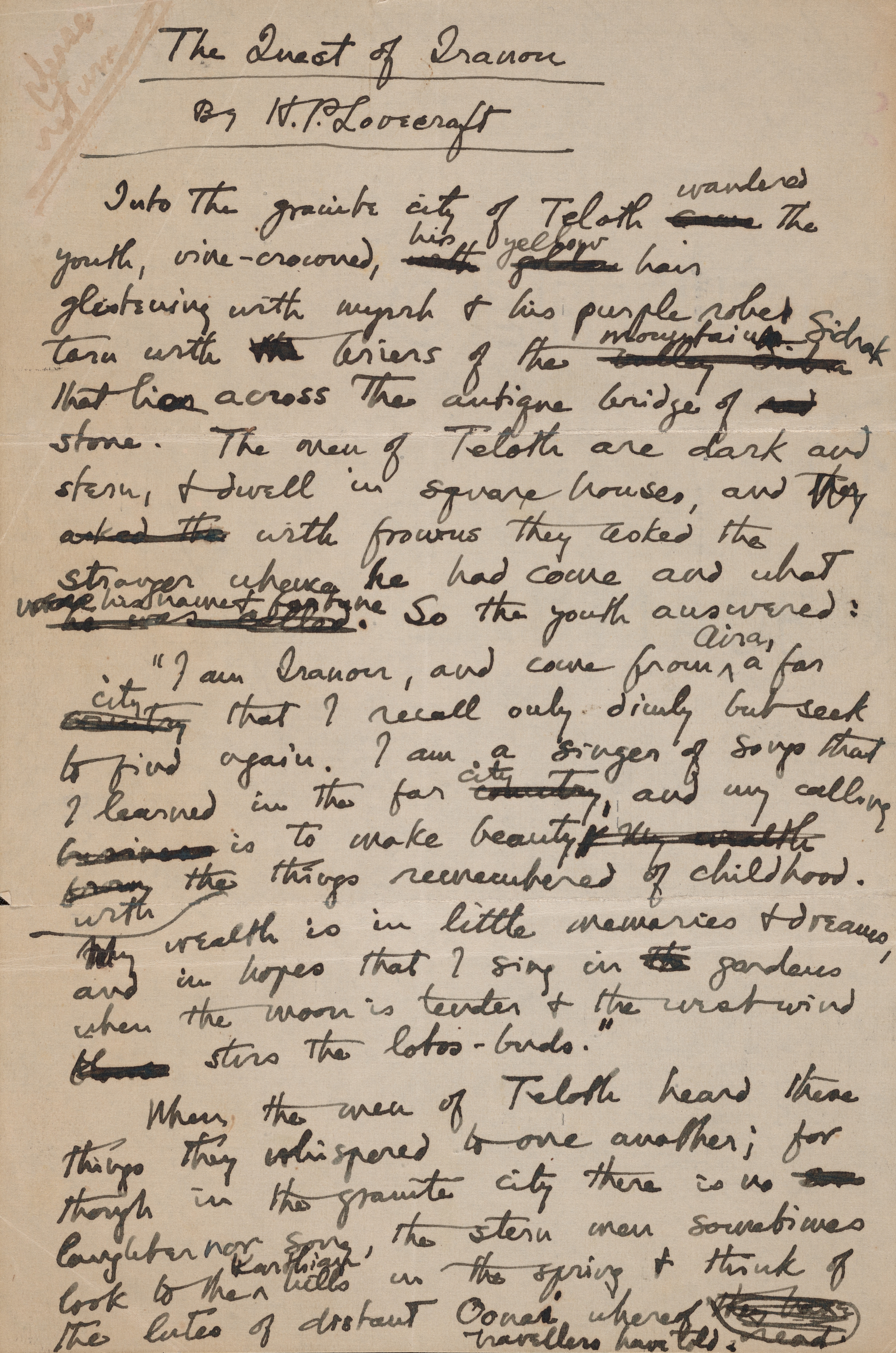 First page of the manuscript The Quest of Iranon.